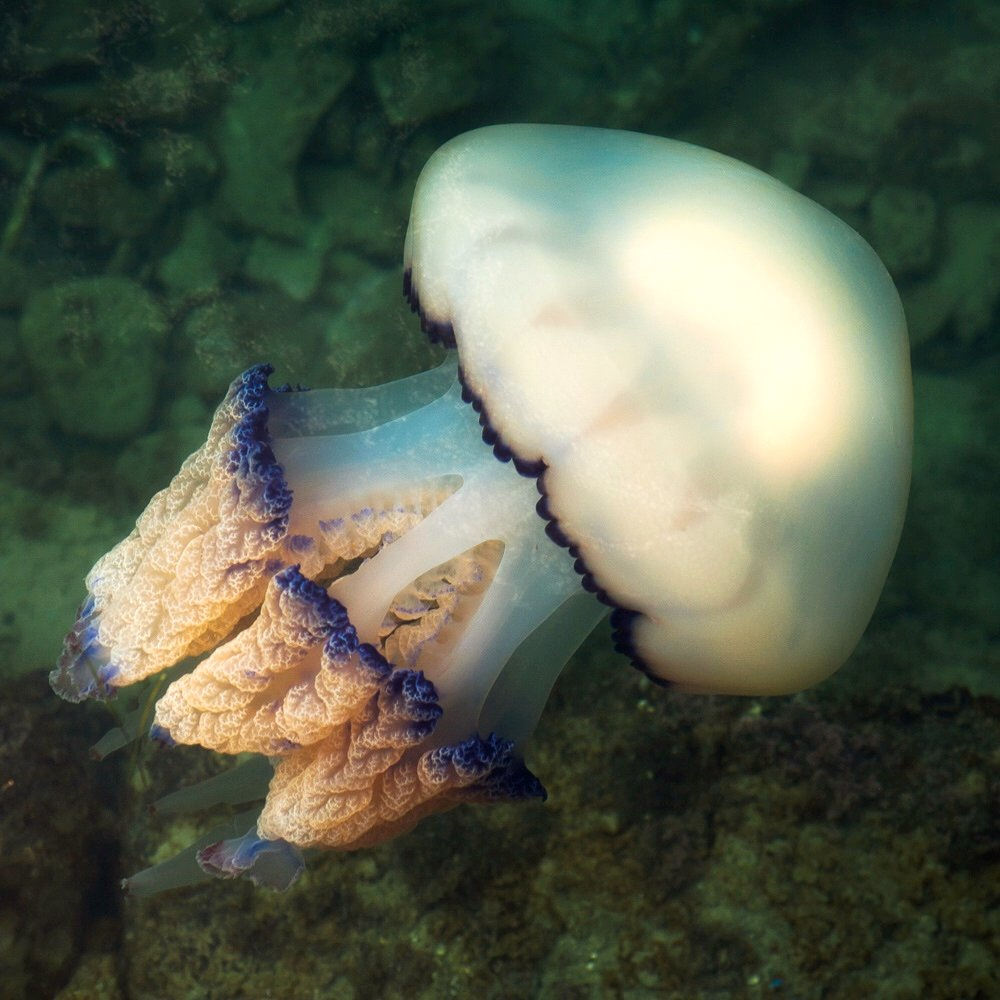 A large jellyfish in port of Piran, Slovenia